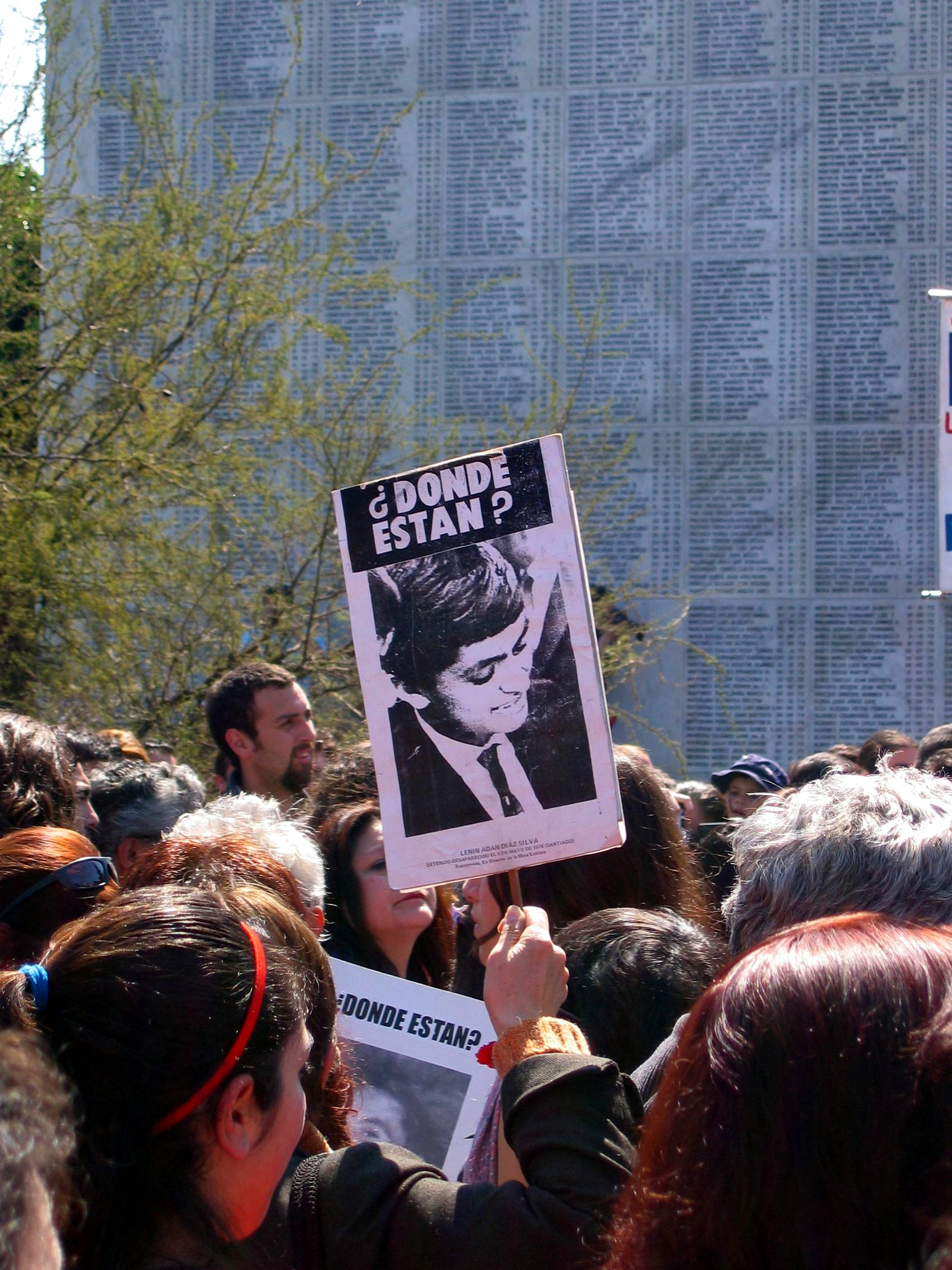 Popular demonstration commemorating the "disappeared" in Chile on September 11, 2004, 31 years after the Chilean military coup. The location is the Santiago de Chile cemetery, in front of the monument for the disappeared.